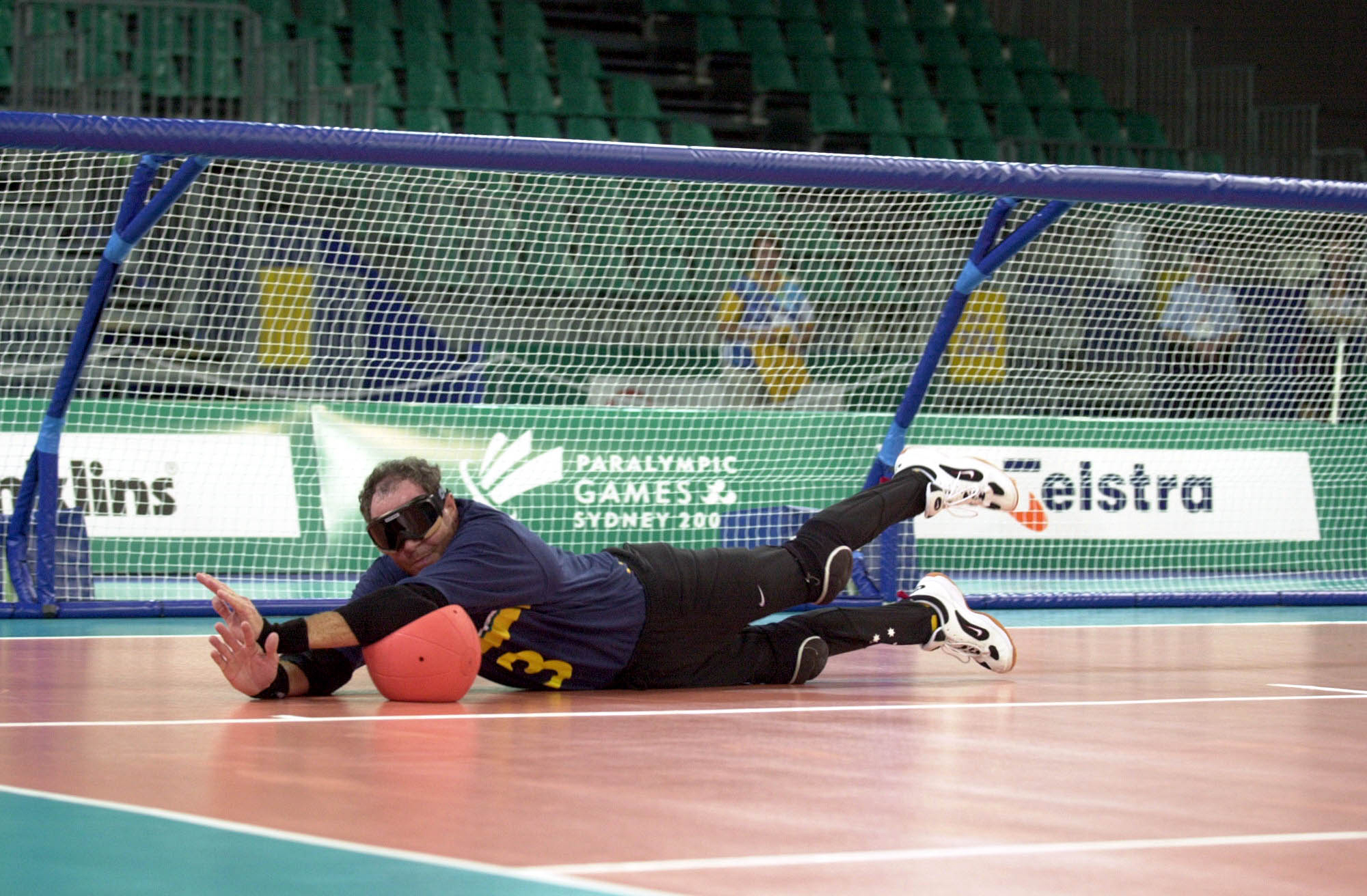 Australian goalball player Warren Lawton saves a penalty goal during 2000 Sydney Paralympic Games match, Australia (AUS) vs Sweden (SWE)